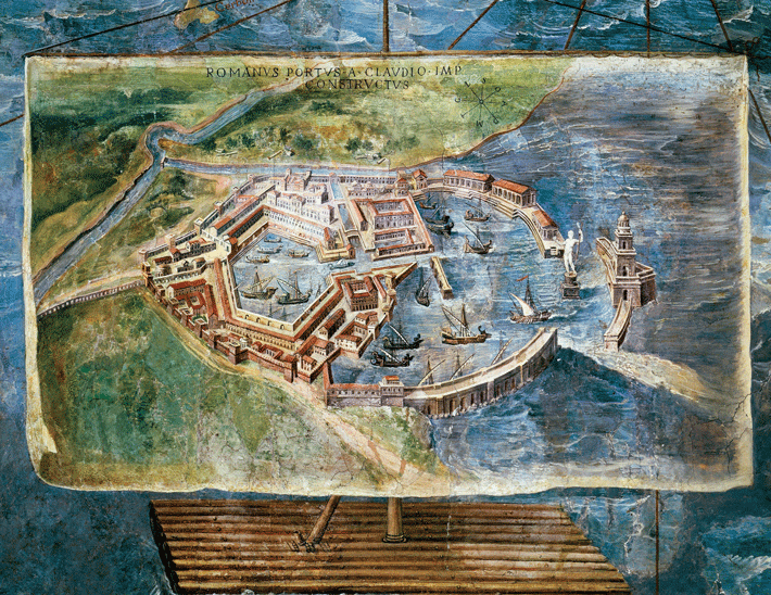 A 16th-century fresco in the Vatican Palace shows an idealized reconstruction of Portus’ grand architectural and engineering features.